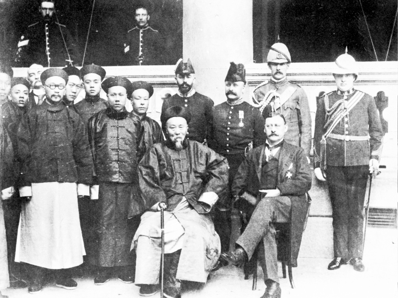 Li Hongzhang and Henry Arthur Blake, at KCR opening celemony 1900年7月李鴻章訪問香港，圖為李鴻章和港督卜力在九龍到廣州火車的開幕上合影留念